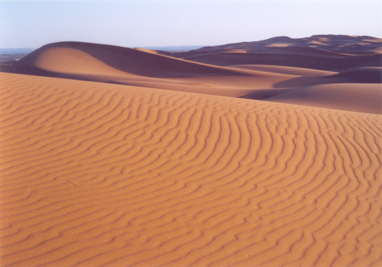 "Sun rising over Erg Chebbi dunes, Morocco"